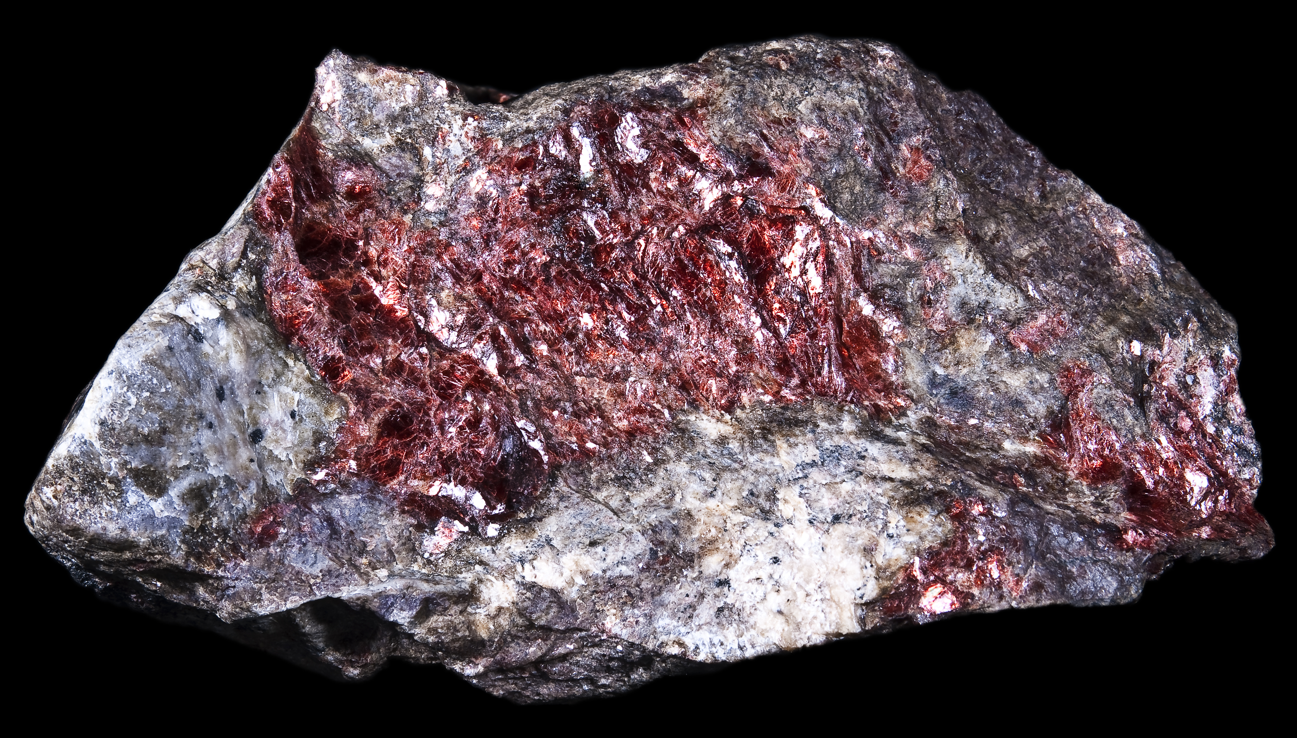 Alurgite, variety of Muscovite (Size: 11.7 x 7.2cm) Locality : Prabornaz Mine (ex Praborna Mine), Saint-Marcel, Aosta Valley, Italy - (Topotype)